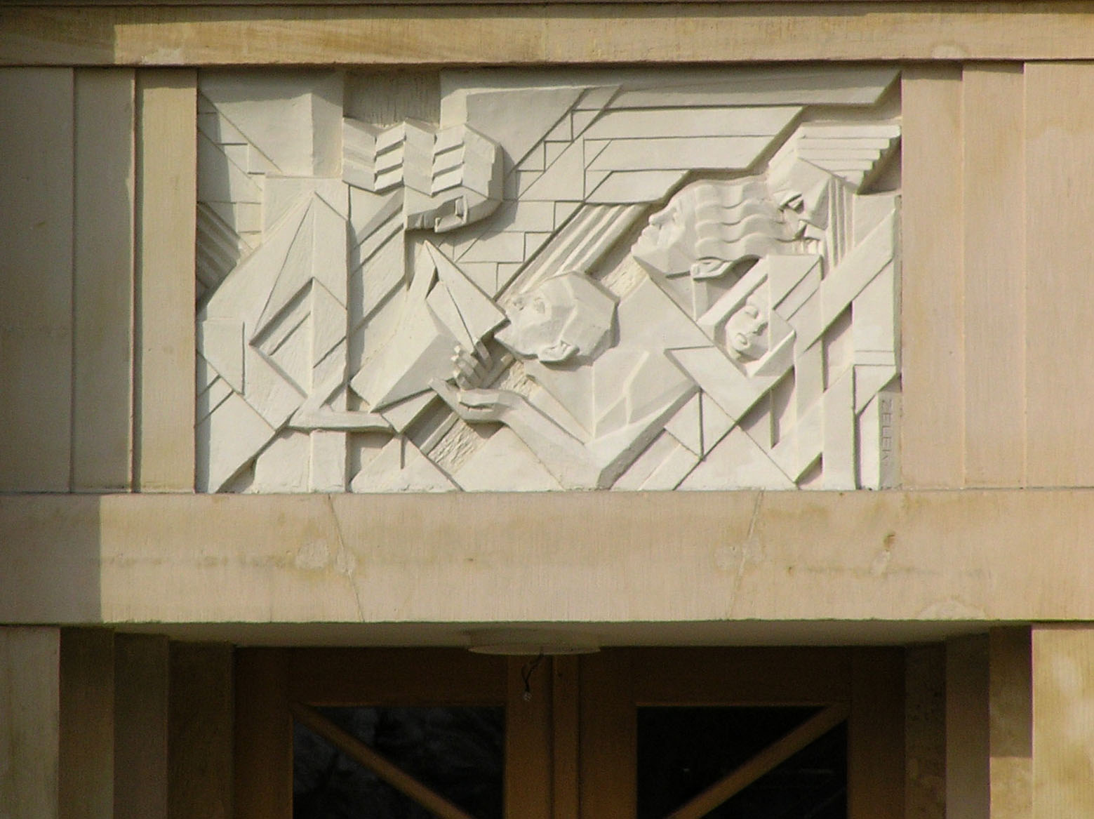 Toruń, Poland, clinic, 17 Uniwersytecka Str., 1928, arch. K. Ulatowski, sculpture by Ignacy Zelek